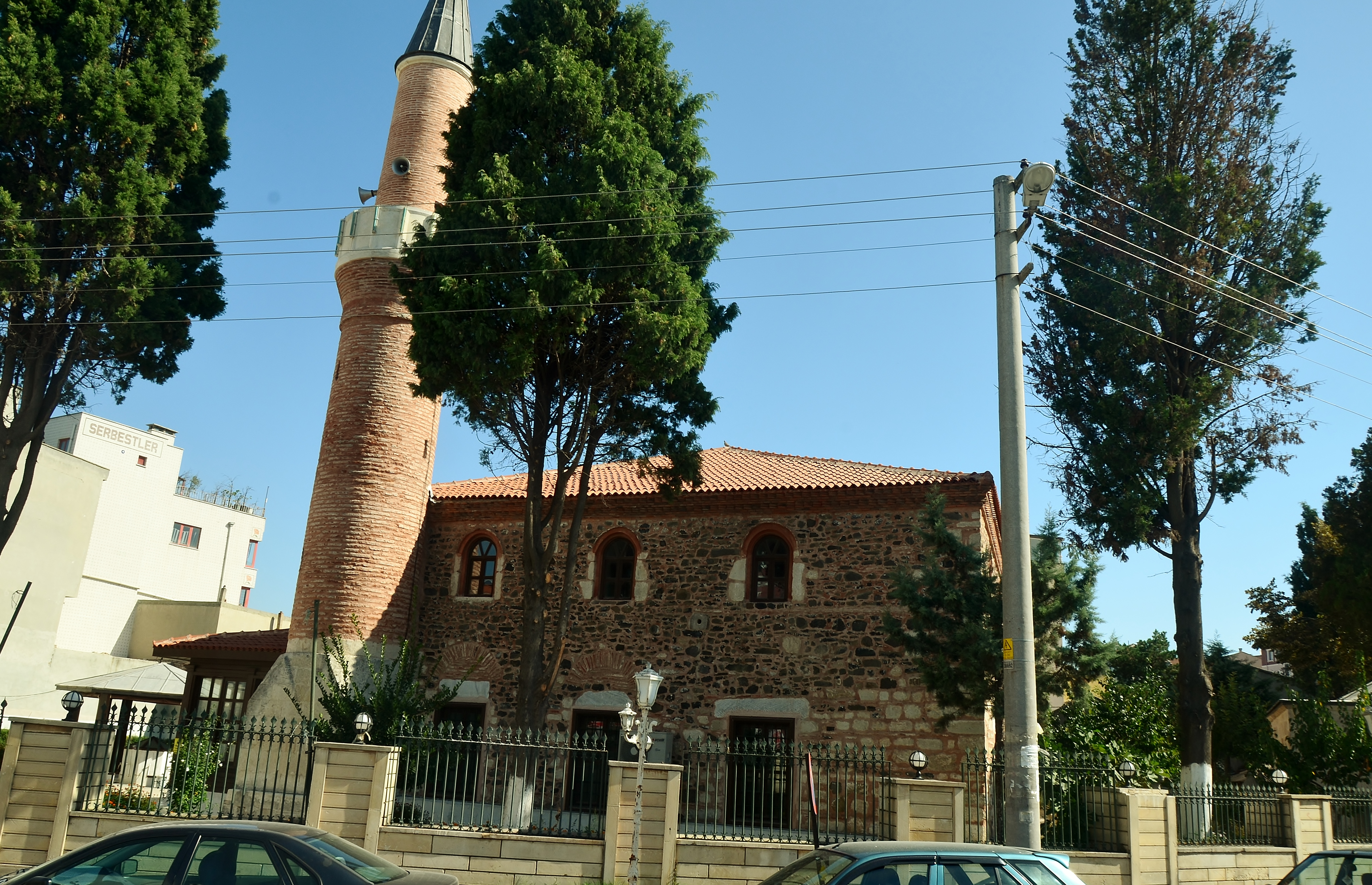 1453-built Fatih Mosque in Çorlu, Tekirdağ, Turkey